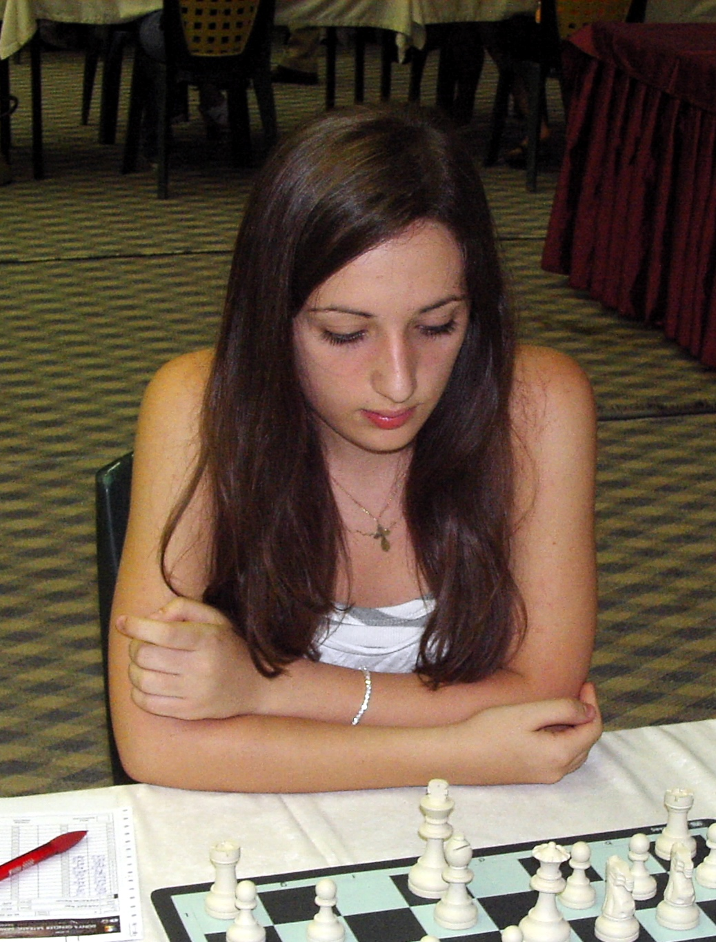 WFM Nazi Paikidze (ნაზი პაიკიძე) Georgia, World Junior Chess Championship, Gaziantep 2008